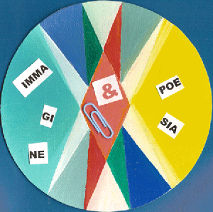 Logo for IMMAGINE&POESIA